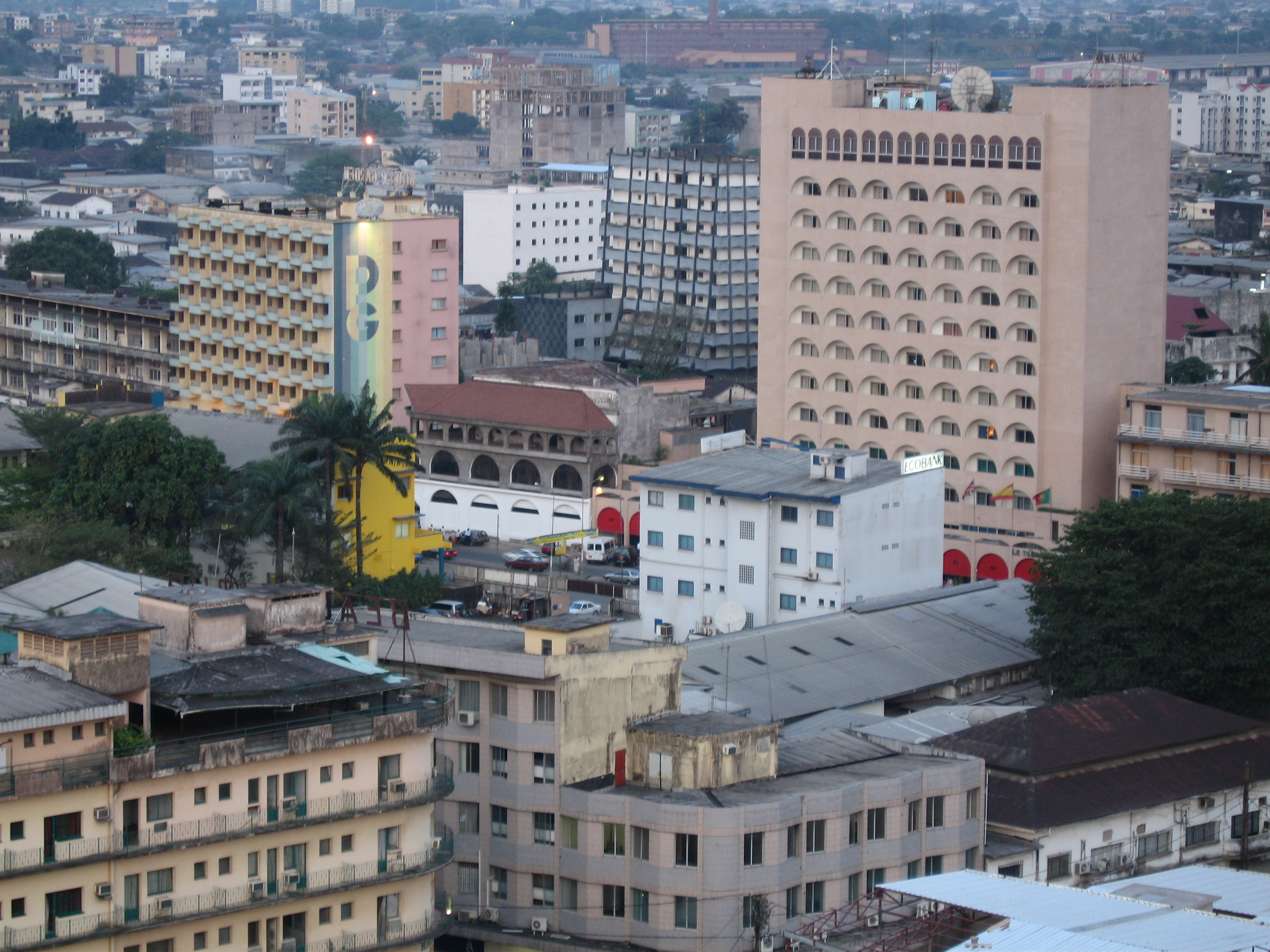 Ars&Urbis International Workshop, organized by doual'art in collaboration with iStrike Foundation, Douala, 2007. Research documentation by Emiliano Gandolfi.